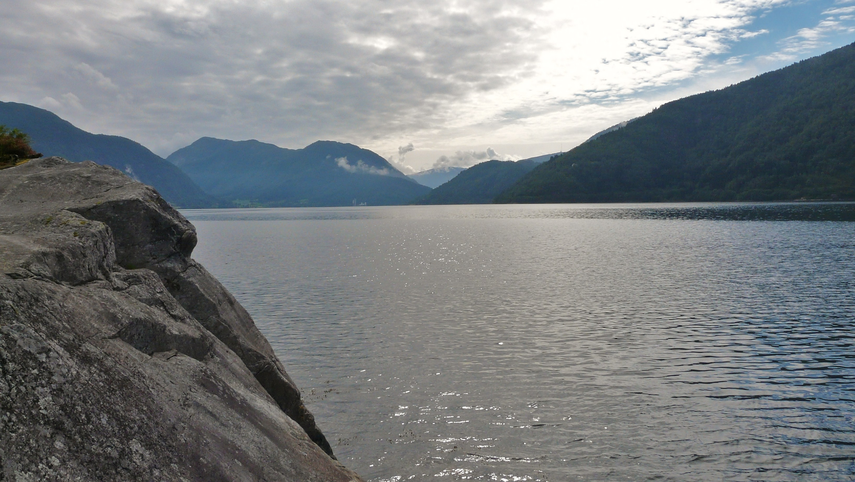 A view to Førdefjorden towards southeast from the northern coast of the fjord by the Riksvei 5 -road in 2008 August.